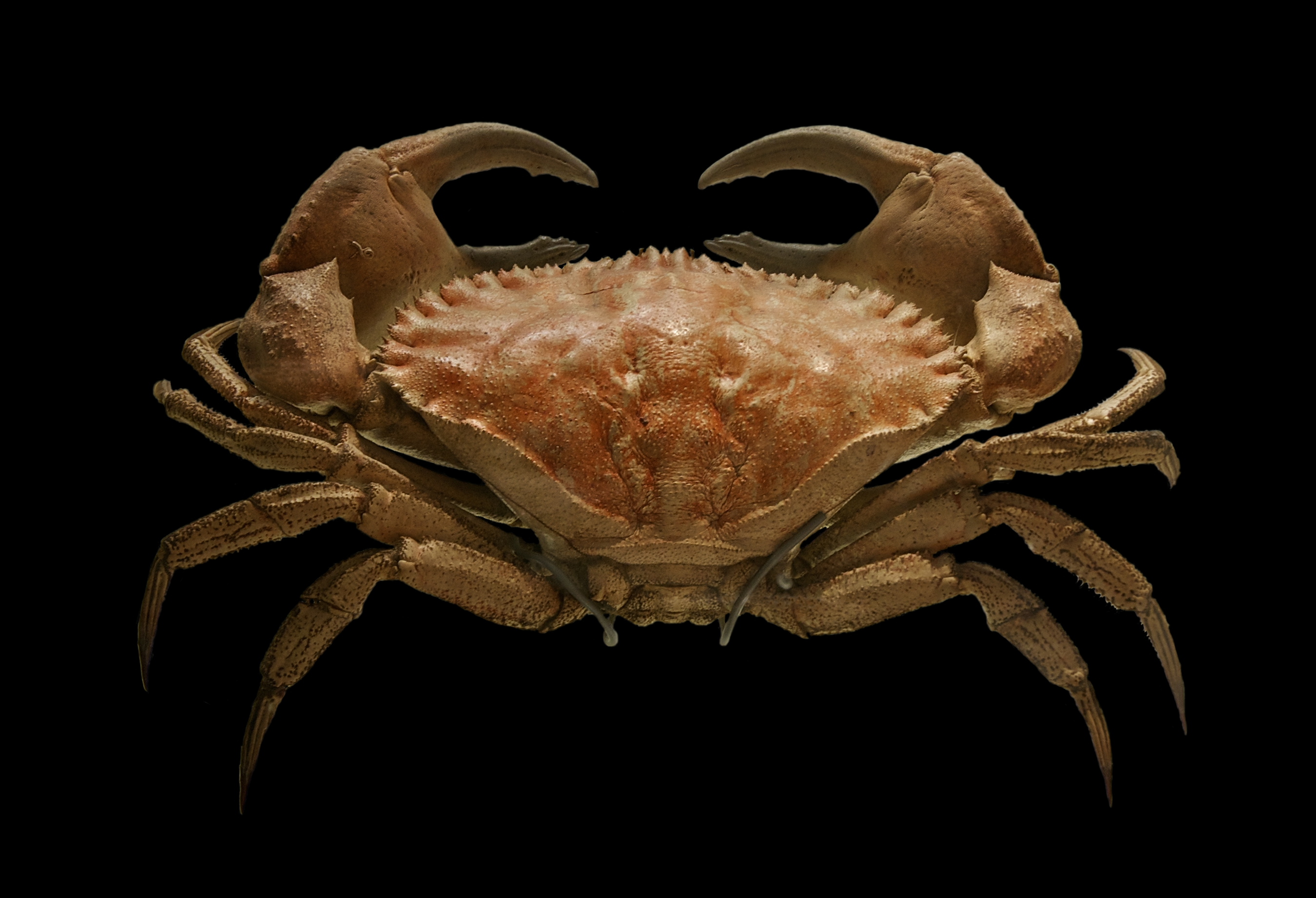 Toothed rock crab Cancer bellianus, Johnston 1861. Stuffed specimen, Museum of Natural History, La Rochelle, France